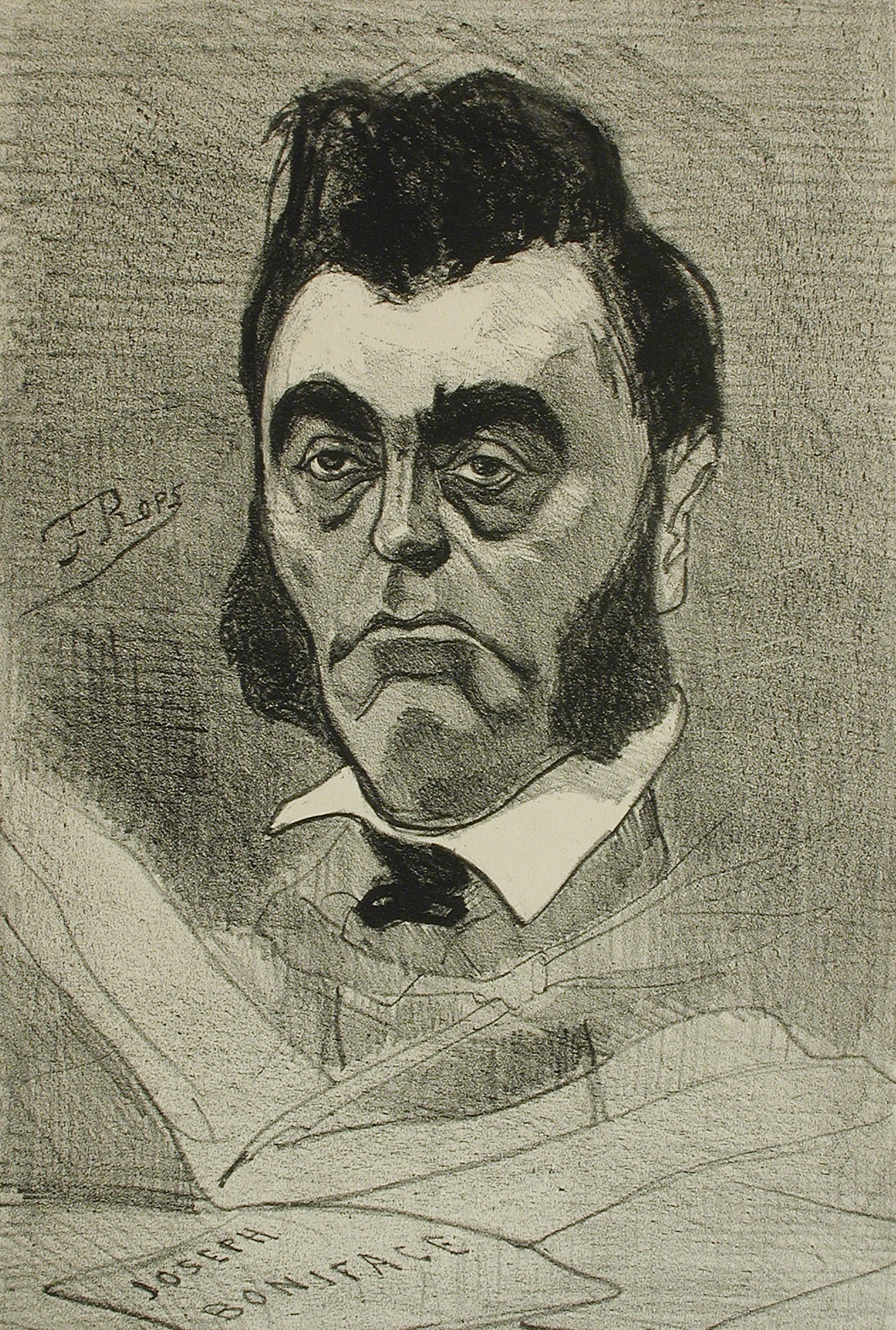 Belgium, 1858 Series: Galerie d'Uylenspiegel Periodical: Uylenspiegel, no. 25, 25 July 1858 Prints; lithographs Lithograph 11 1/4 x 7 11/16 in. (28.58 x 19.53 cm) Gift of Michael G. Wilson (M.80.277.36) Prints and Drawings